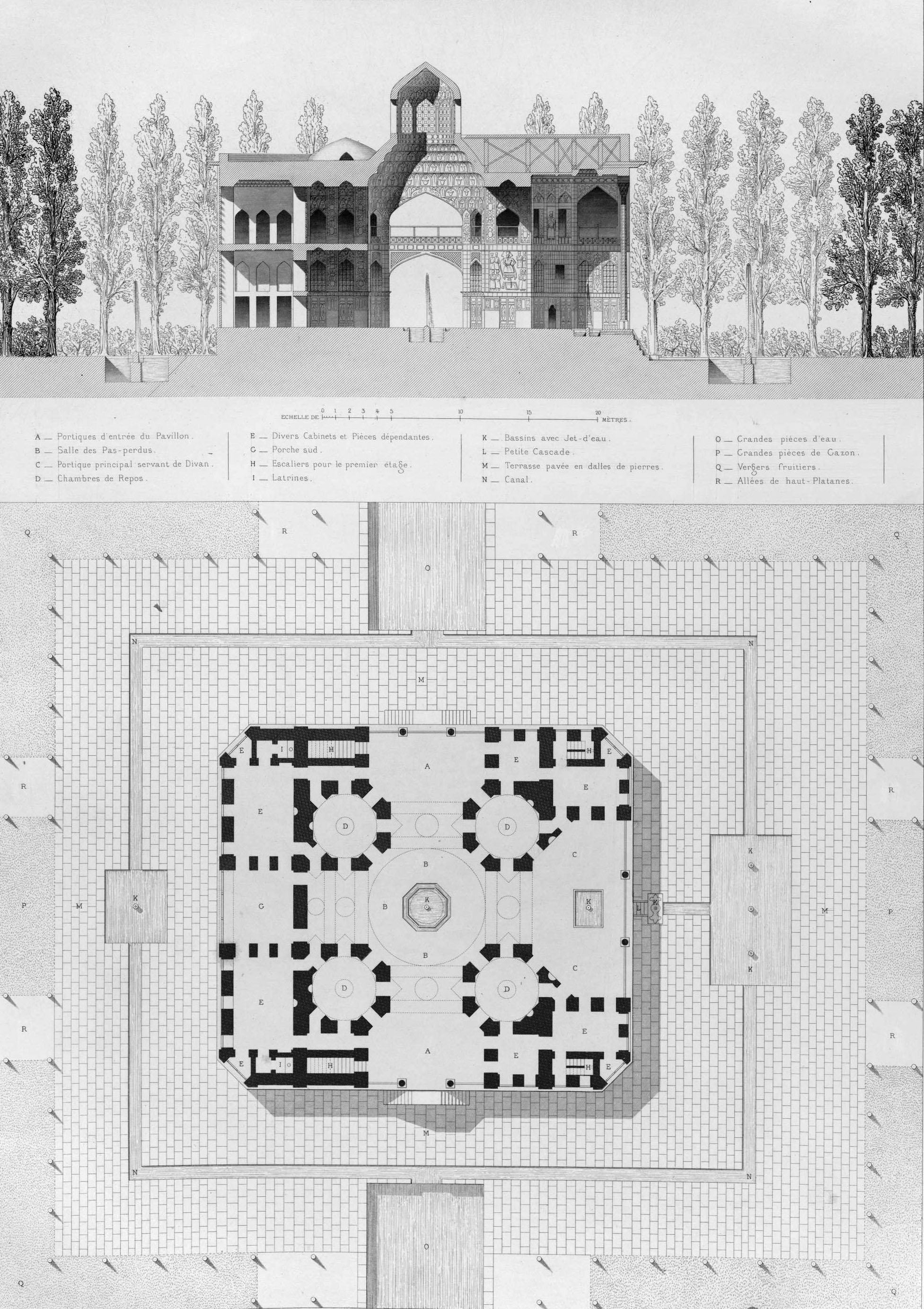 Pavillon of Eight Paradise (Hasht Behesht), Plan and section